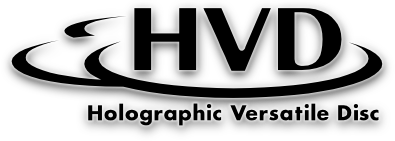 Logo of the Holographic Versatile Disc.